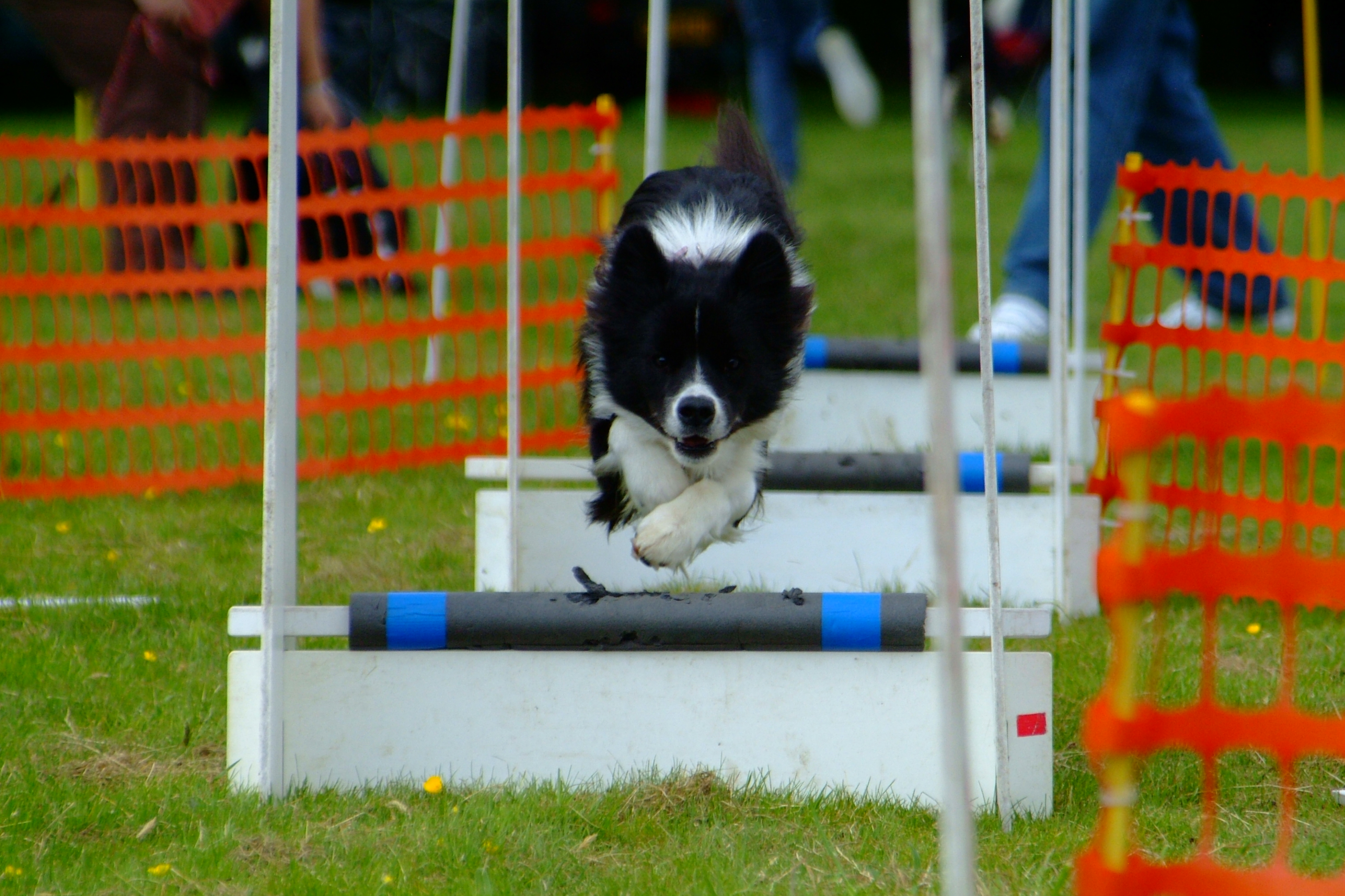 Breeze the Border Collie flyball training